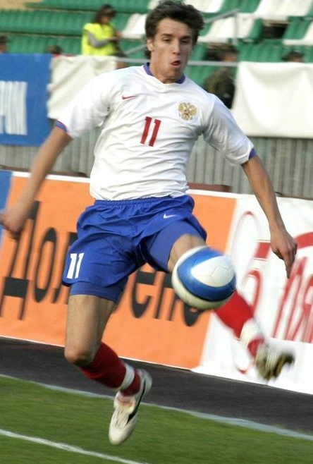 Dmitry Kombarov in action for Russia national U21 football team